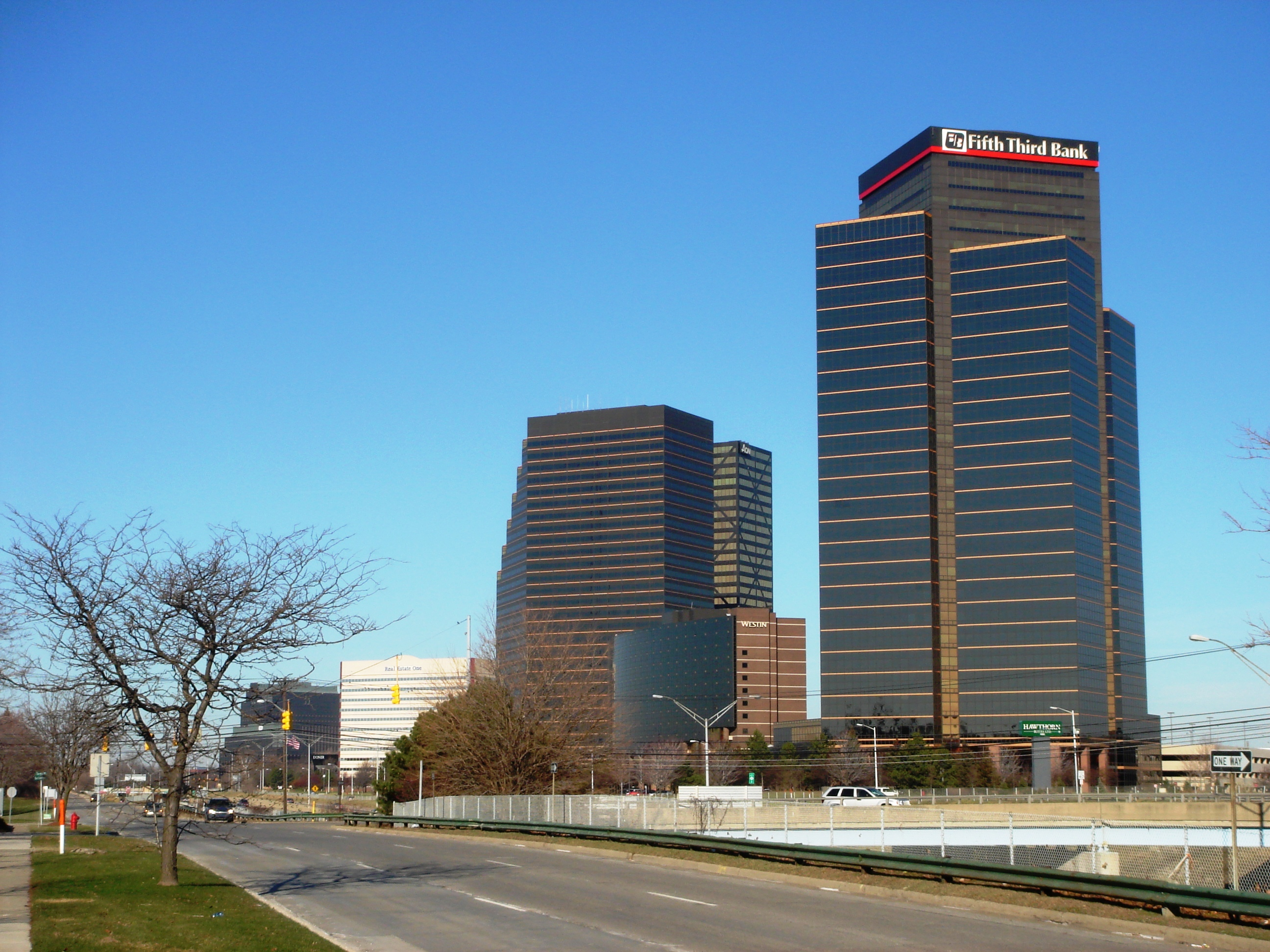 Southfield Town Center, Southfield, Michigan, taken from the south.